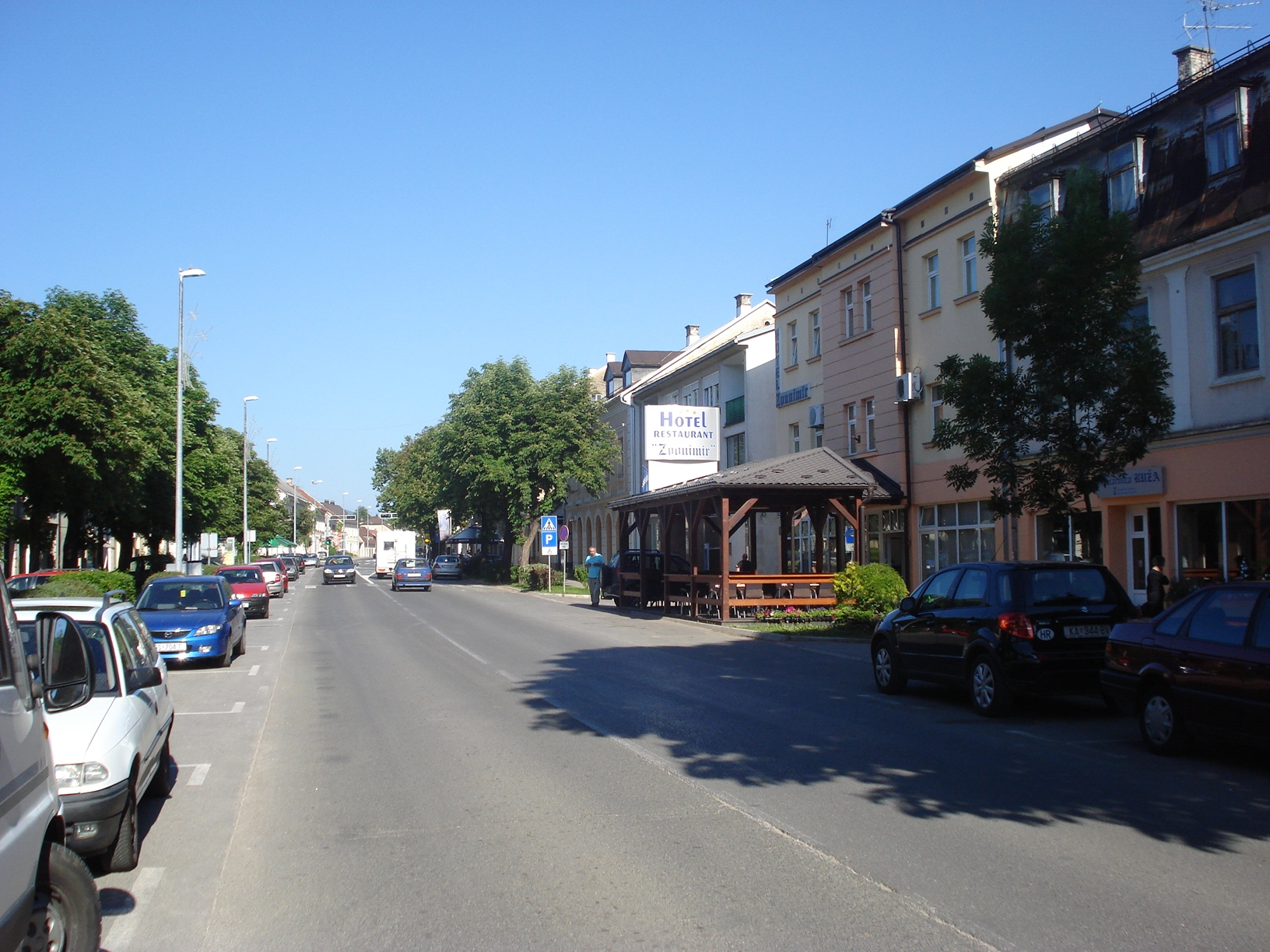 Otočac (Lika-Senj County, Croatia) - King Zvonimir streetHrvatski: Otočac (Ličko-senjska županija, Hrvatska) - Ulica kralja Zvonimira